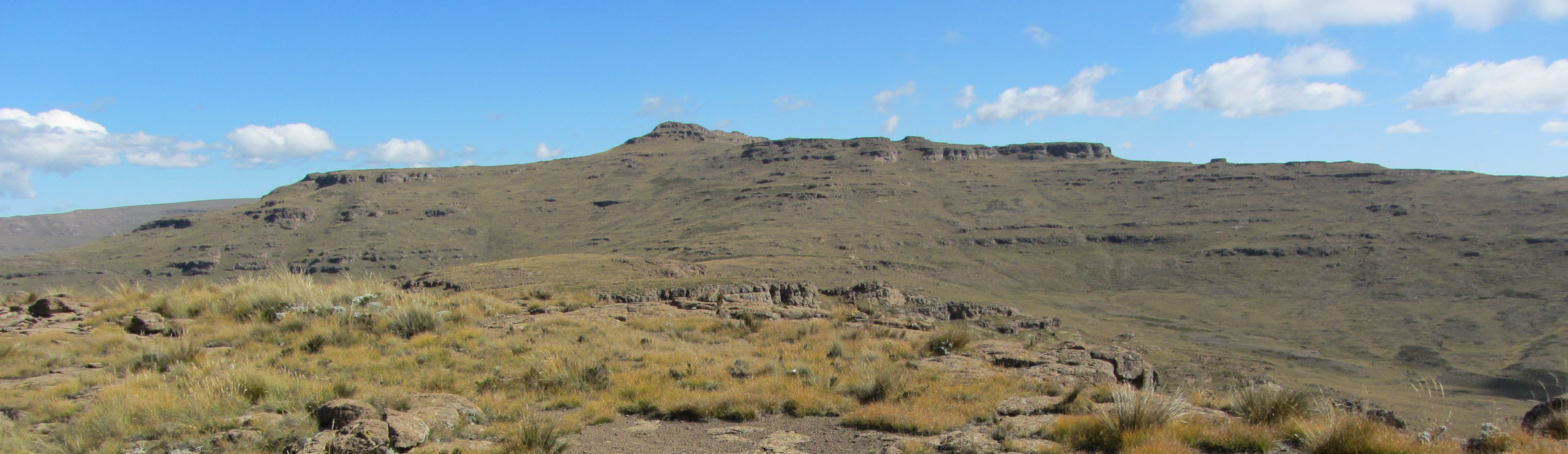 Mont-Aux-Sources pano taken from Crows Nest peak